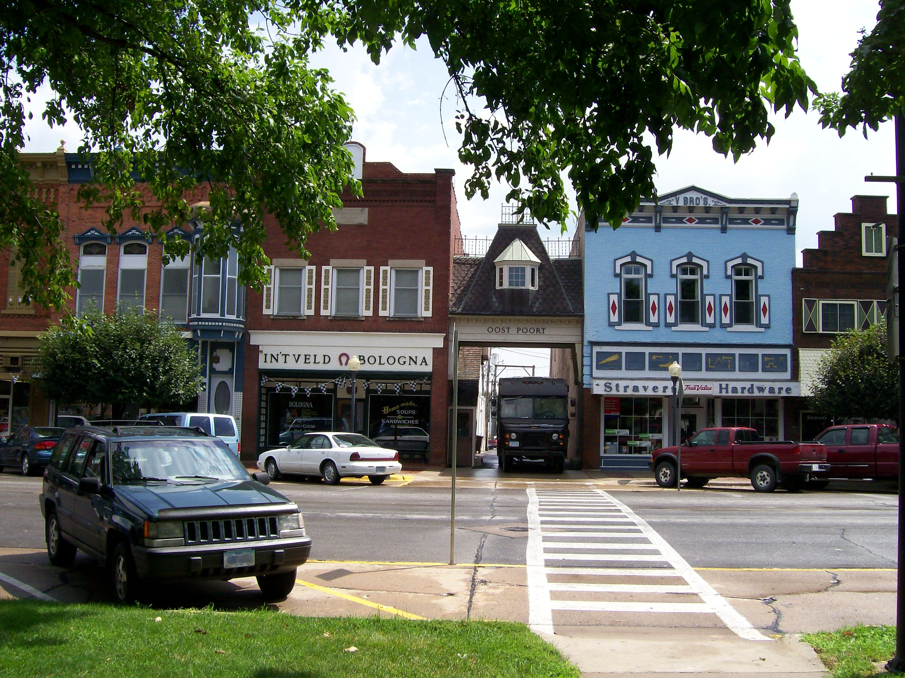 I took this picture with a Kodak EasyShareC703 on August 13, 2007. It is a picture of some of the shop fronts on the east side of Main in Pella. The image illustrates some of Pella's Dutch architecture.